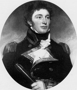 Captain William Hoste